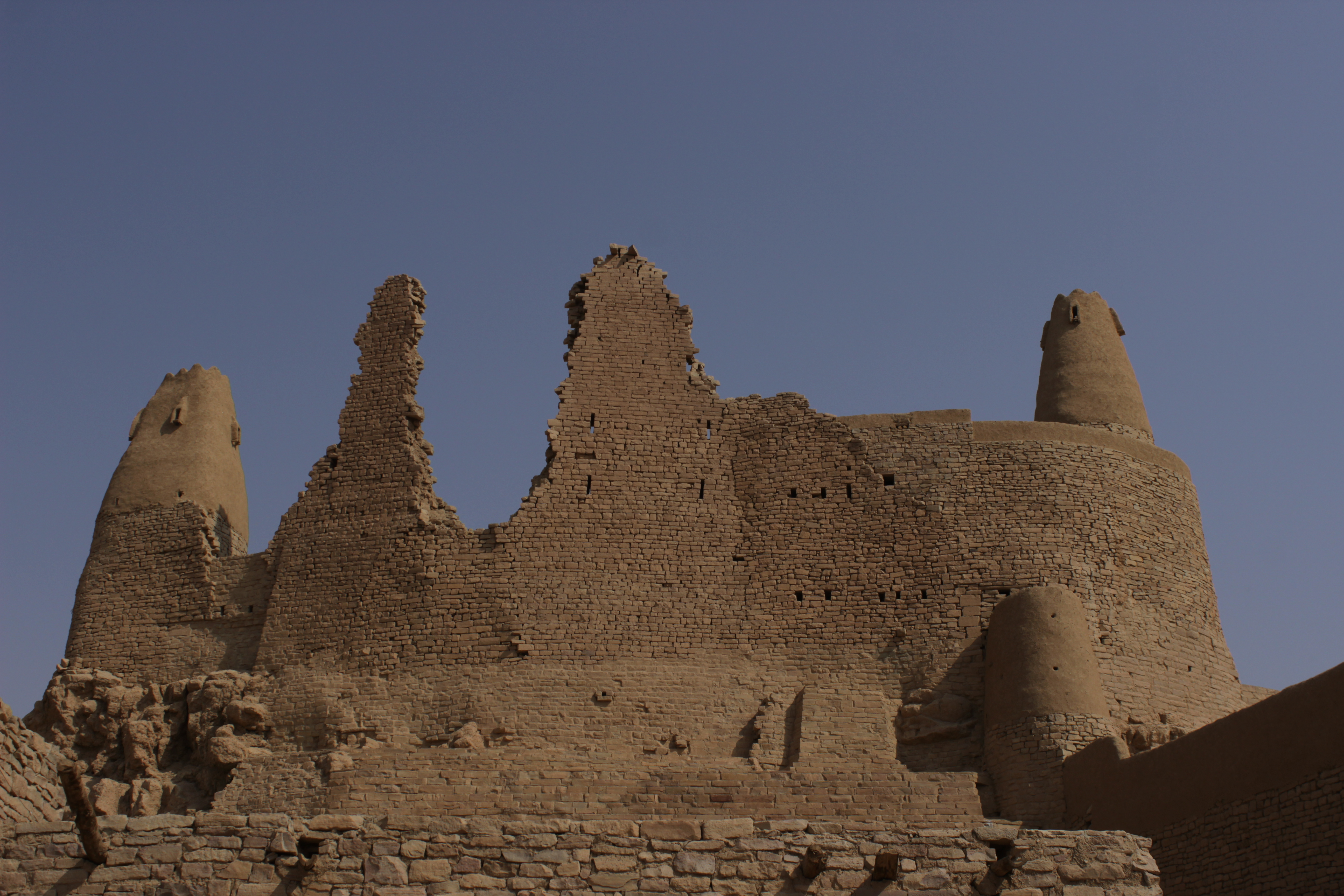 Marid Castle